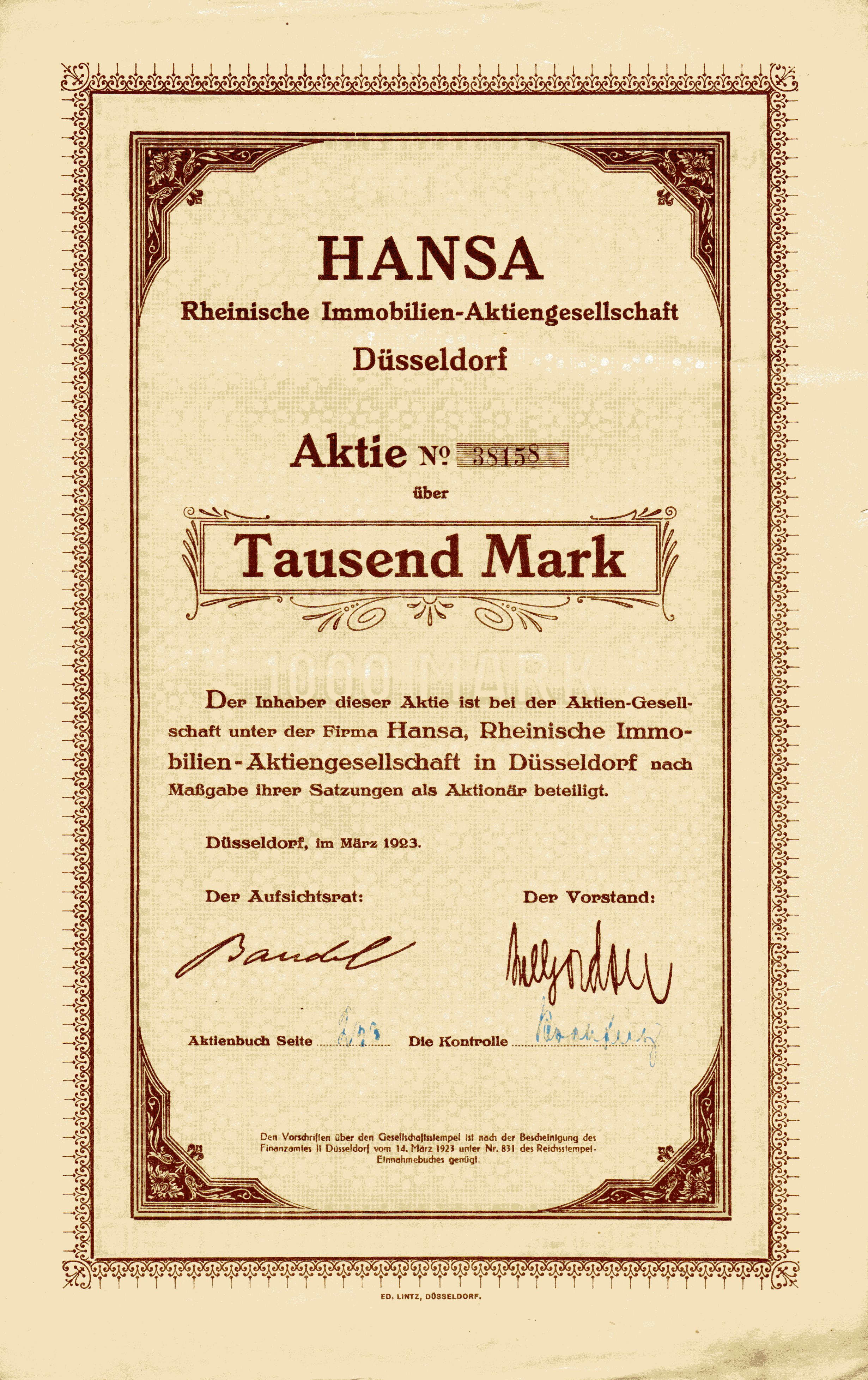 Share of the Hansa, Rheinische Immobilien-AG, issued March 1923